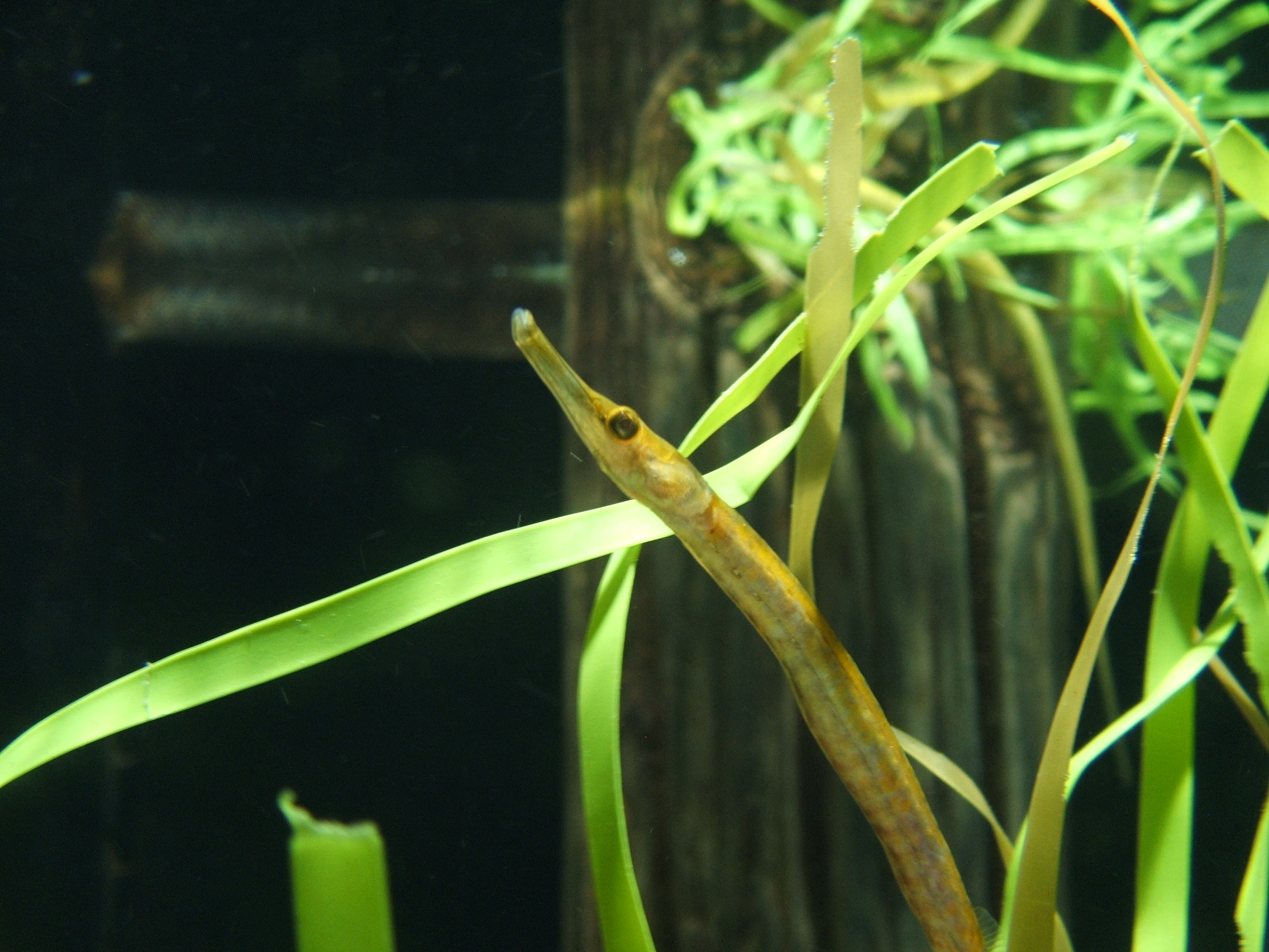 Syngnathus leptorhynchus in Aquarium of the Bay, San Francisco, California; seen in the background is eelgrass (Zostera marina)